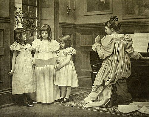 Der Falsche Ton